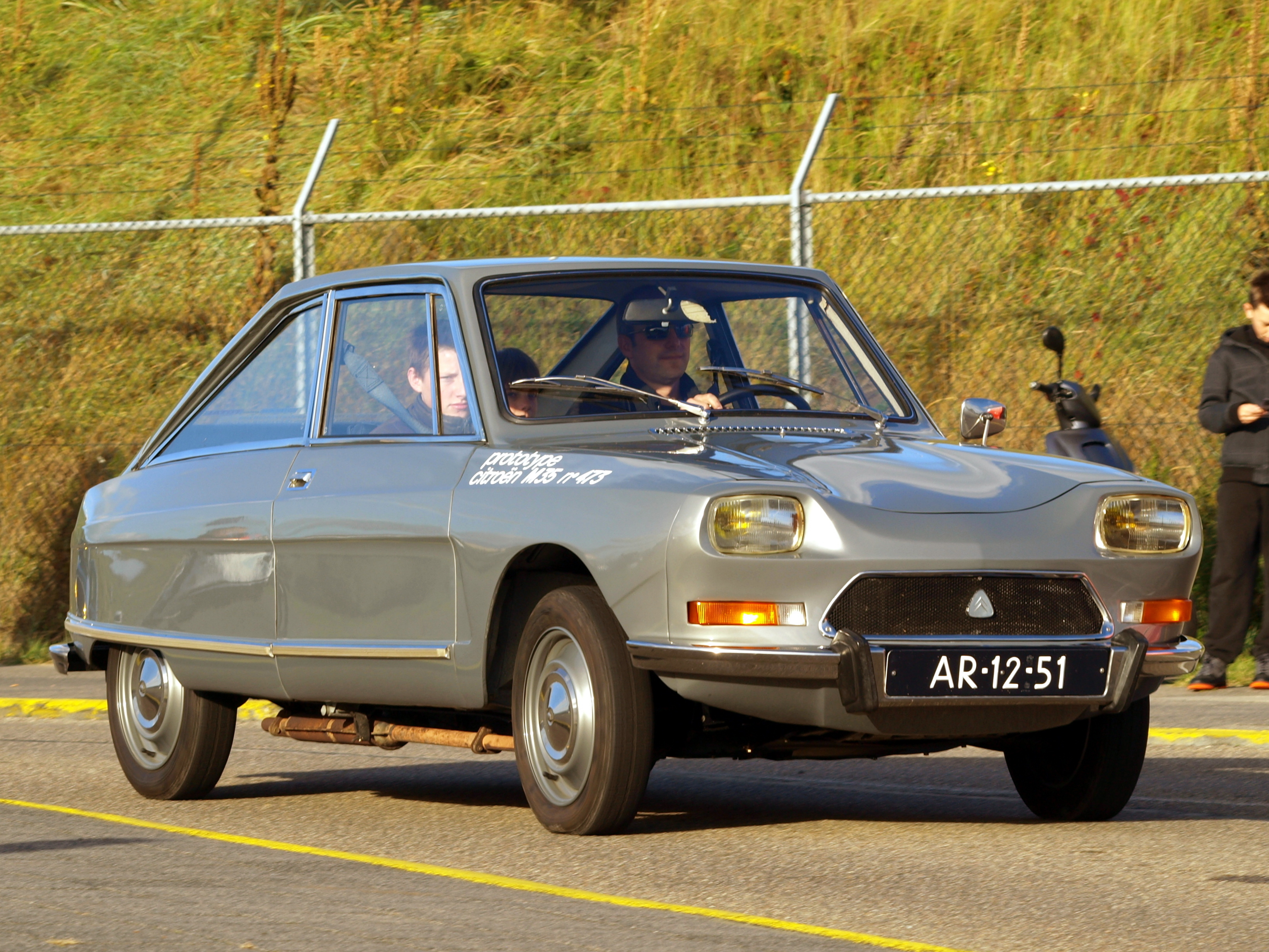 Photographed at the Nationaal Oldtimer Festival Zandvoort 2012. Citroën M35 No473